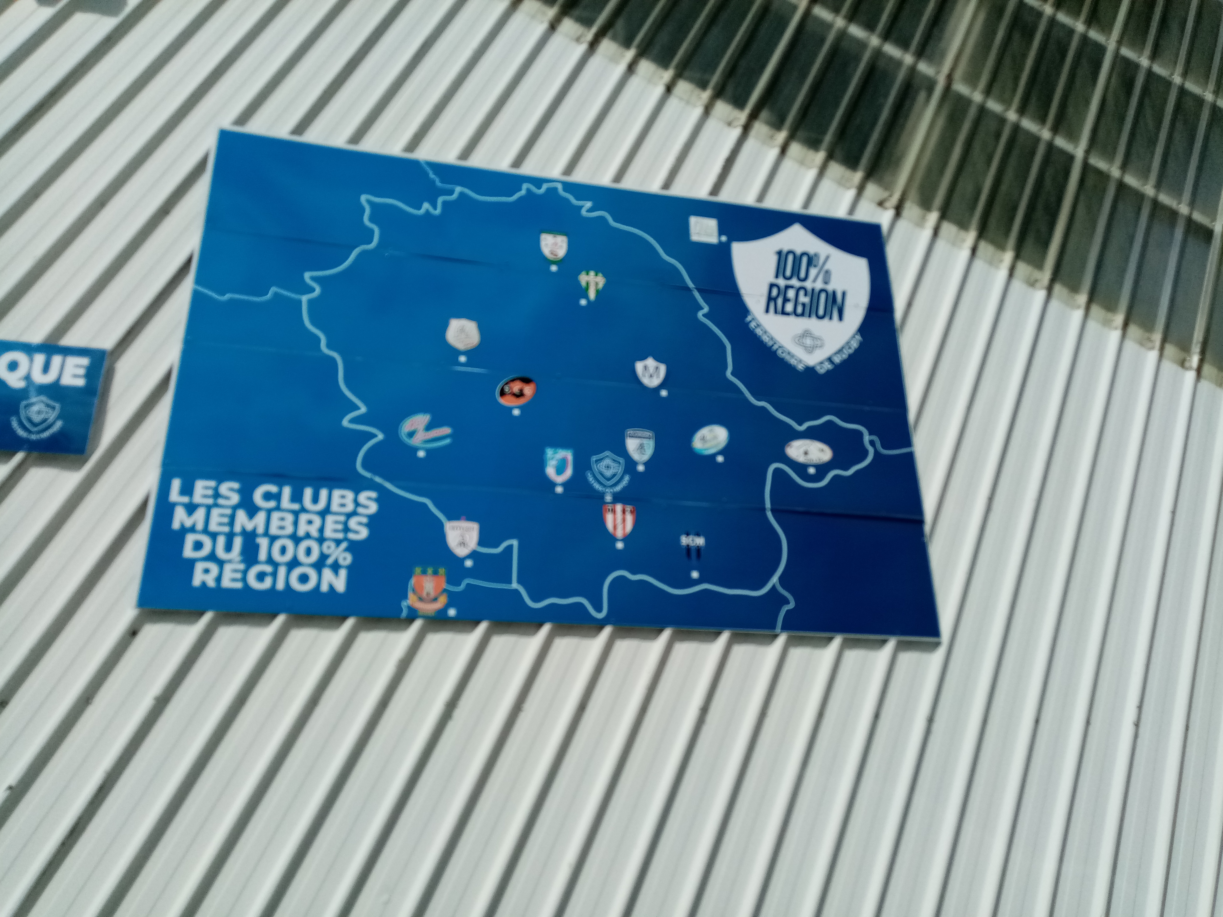 Clubs de rugby du Tarn partenaires du Castres Olympique